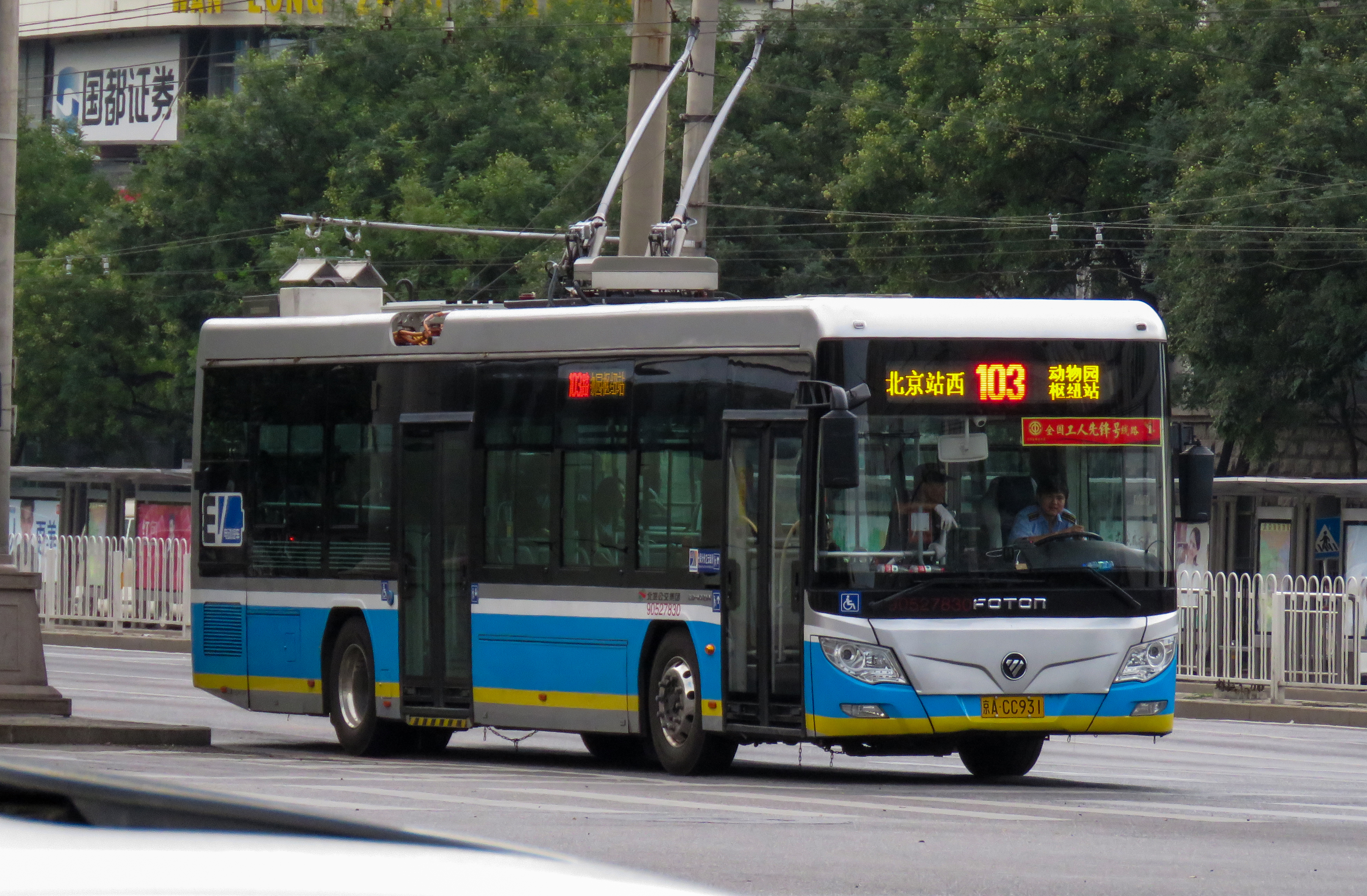 FL or FM? The latter.